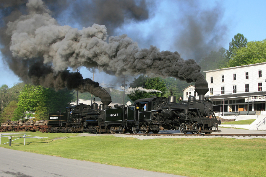 Cass Scenic Railroad Heisler #6 along with Shay #11 lead a loaded log train down the former C&O mainline. Note the Cass Country store which was built in 1902 in the background and that the locomotives have been temporarily lettered for predecessor logging railroads that operated at Cass. Photo Walter Scriptunas II